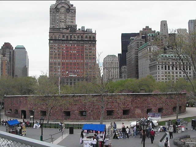 Castle Clinton ou Fort Clinton dans battery park